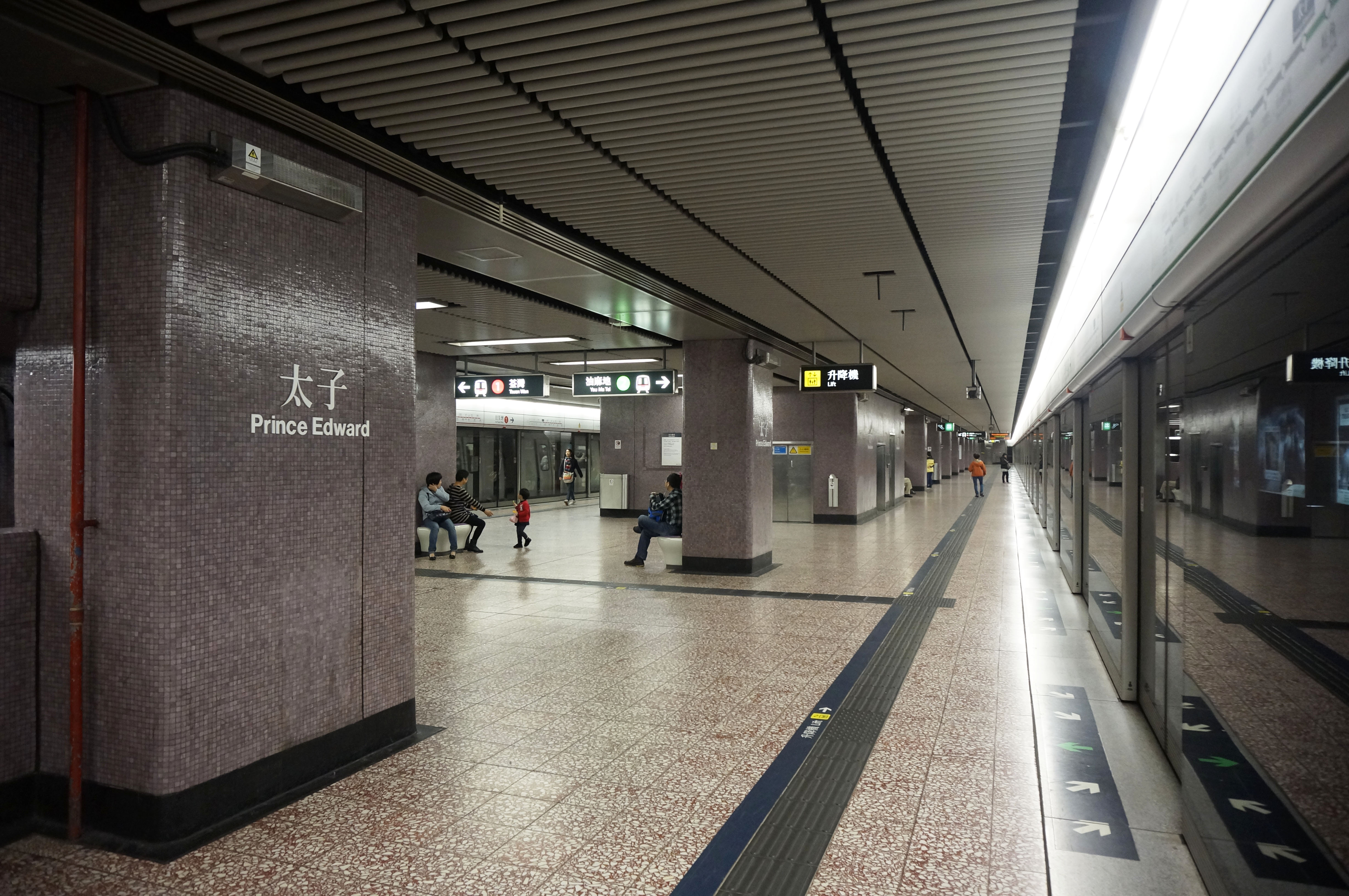 MTR Prince Edward station platforms